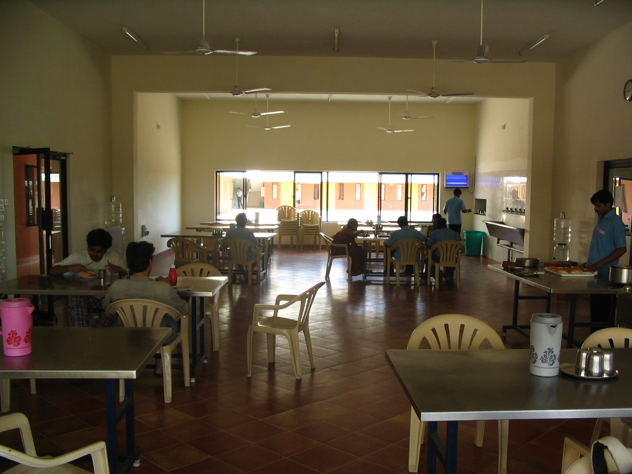 Chennai Mathematical Institute canteen